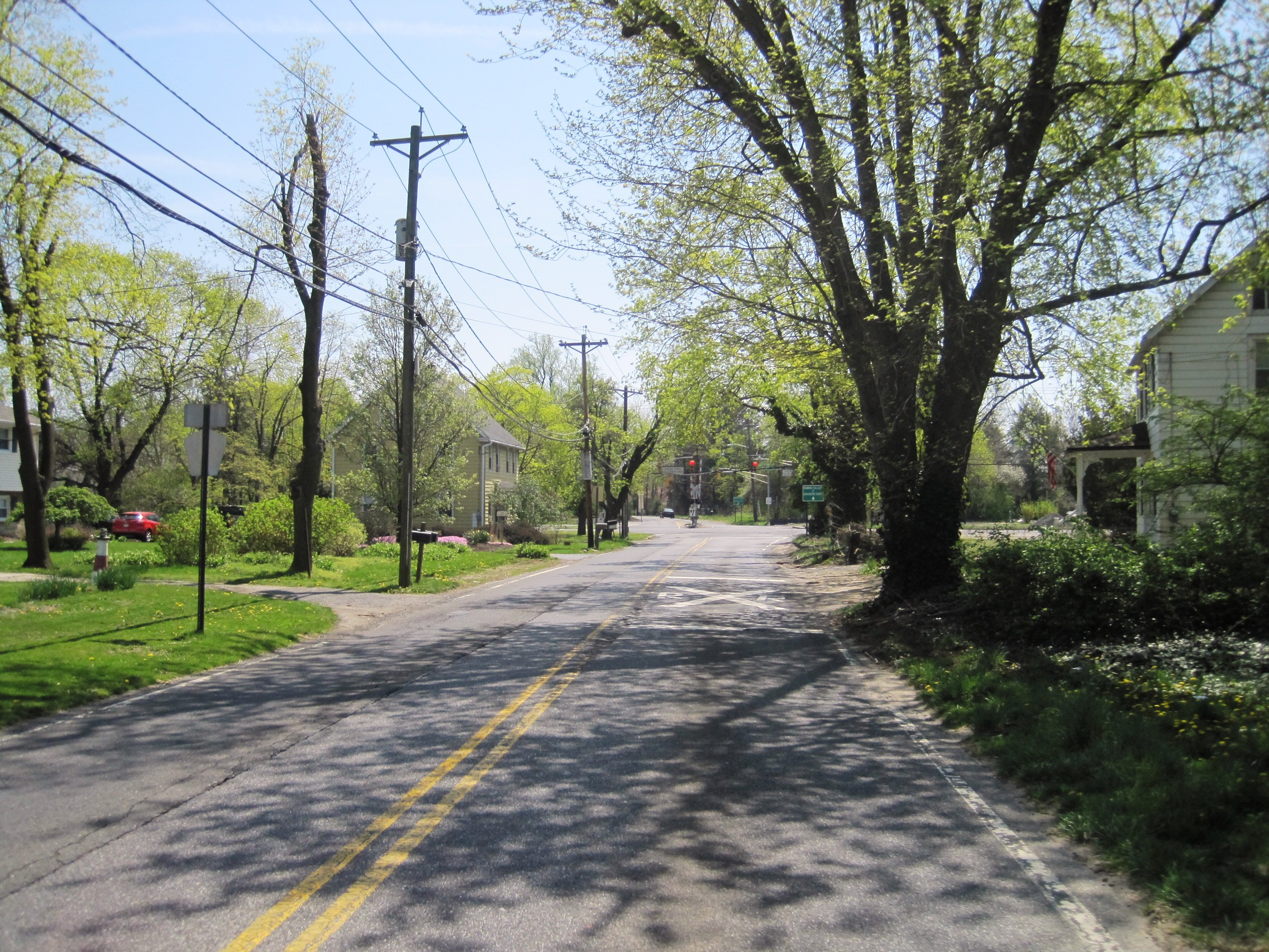 Photo showing Hartford, New Jersey, an unincorporated community within Mount Laurel Township. Photo taken along southbound Hartford Road (County Route 686) approaching Marne Highway (CR 537).